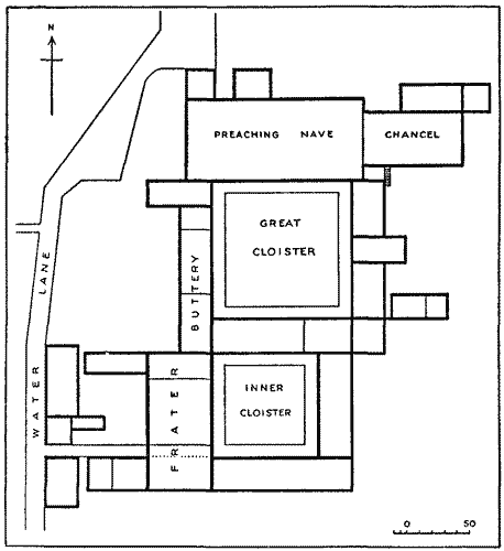 Blackfriars Monastery, London - ground plan. A plan of the various buildings as they appeared before the dissolution, based on the Loseley Manuscripts and other documents, surveys, and maps. The Buttery became Farrant's, the Frater Burbage's playhouse.